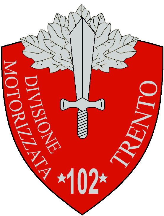 Coat of Arms of the WWII 102a Divisione Motorizzata Trento of the Italian Regio Esercito